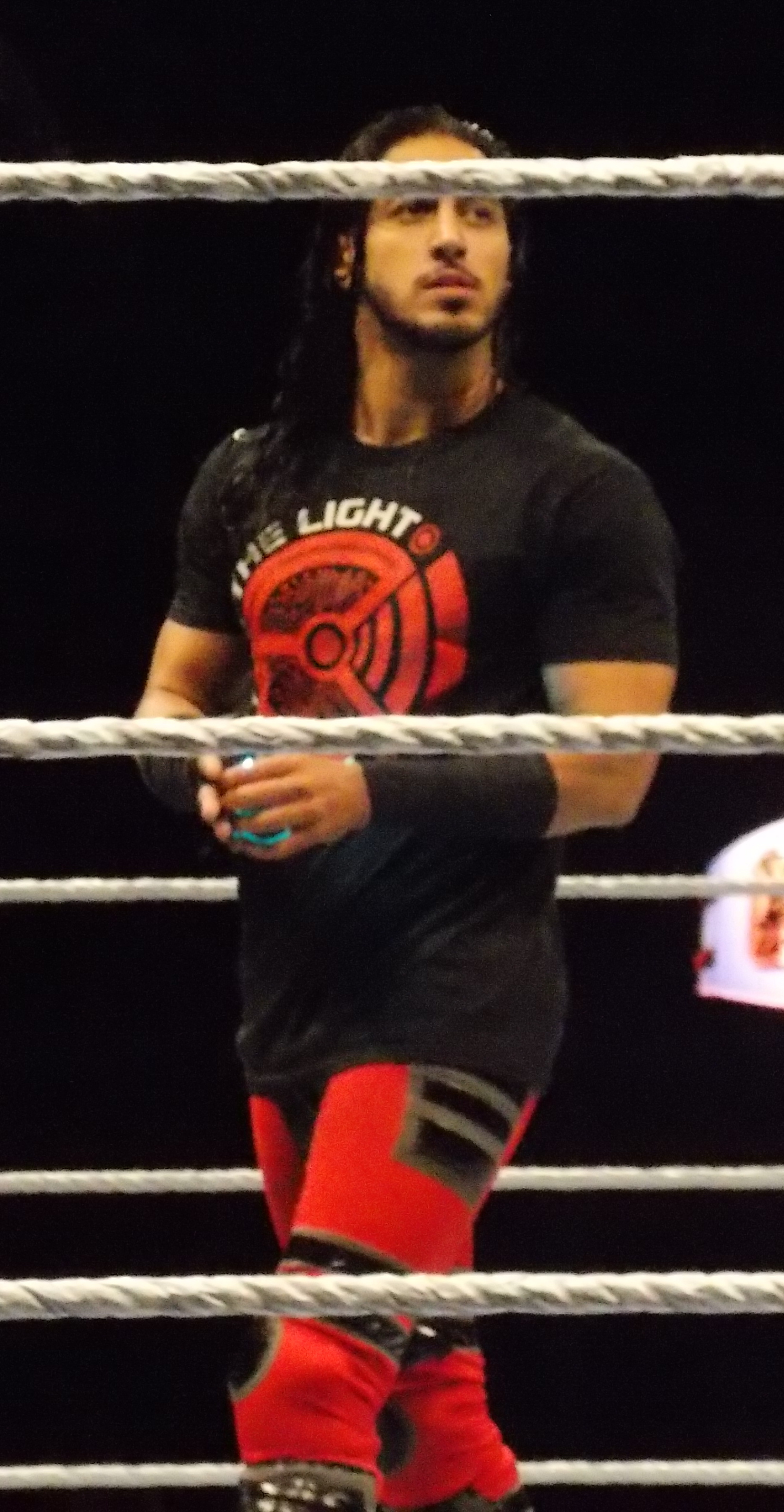 Ali at a WWE Live Event House Show in Omaha, Nebraska, USA on Sunday, August 18, 2019